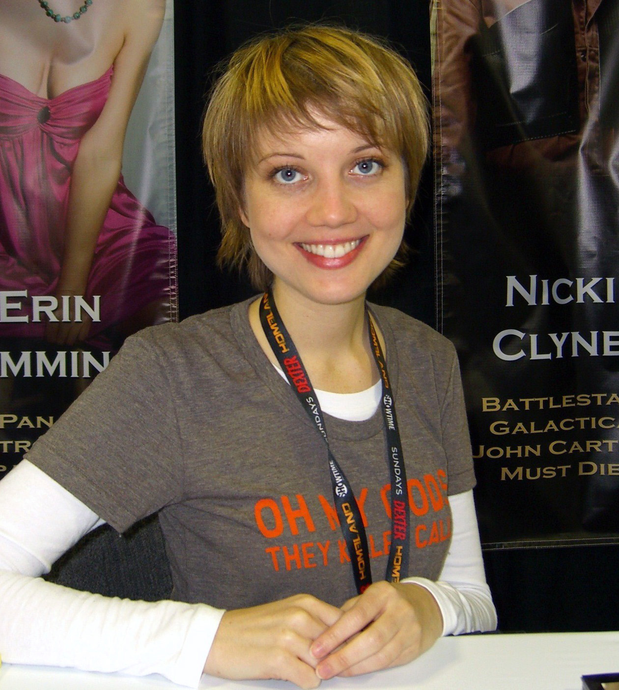 Actress Nicki Clyne, at the New York Comic Con, October 15, 2011. This photo was created by Luigi Novi. It is not in the public domain, and use of this file outside of the licensing terms is a copyright violation.